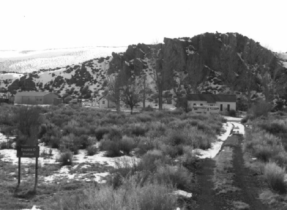 Double O Station on the Malheur National Wildlife Refuge in Harney County, Oregon; site of the Double O Ranch Historic District which was listed on the National Register of Historic Places in 1982